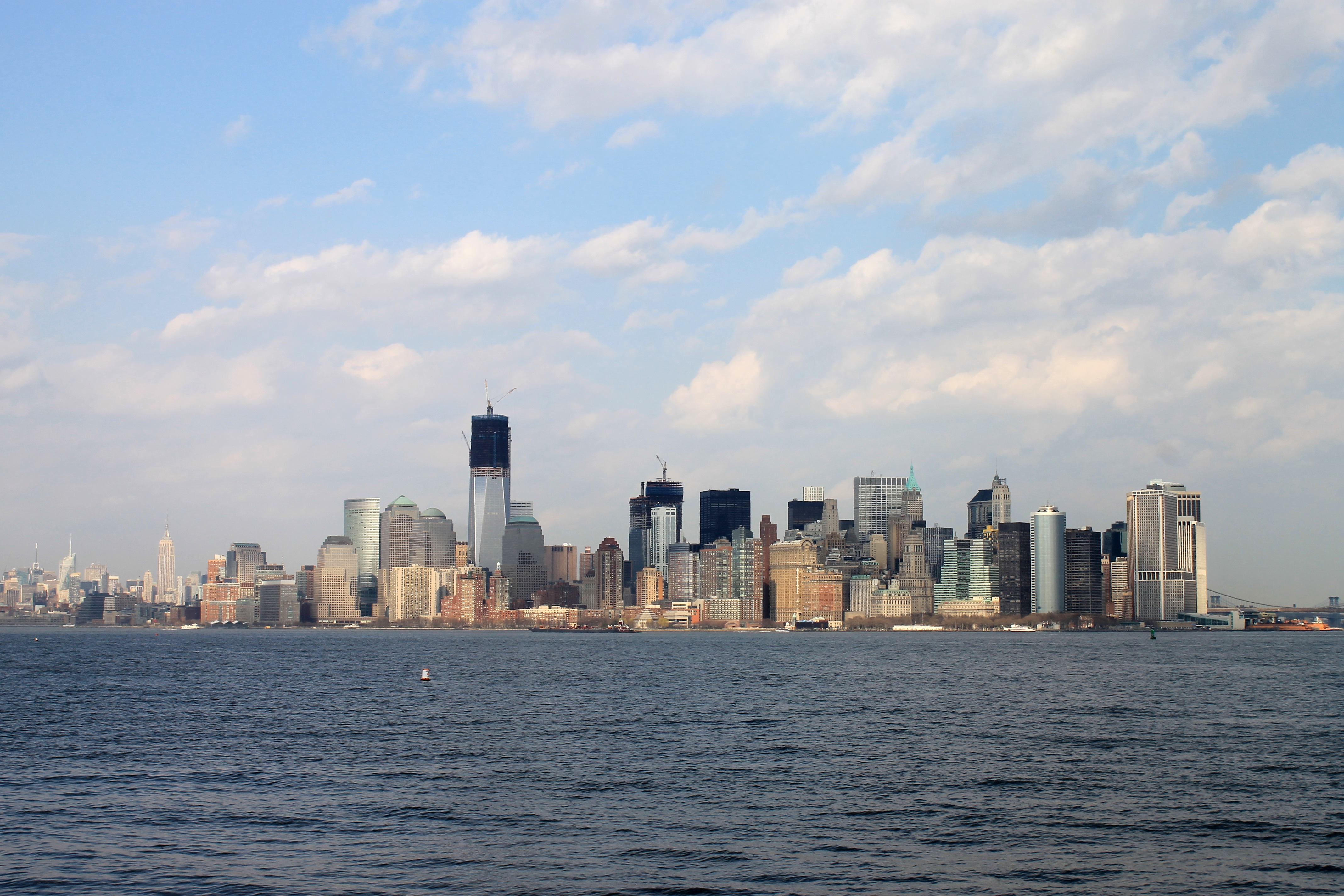 Image I took of the Manhattan skyline from Liberty Island on March 13th, 2012.